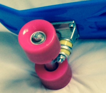 A close up photo of a truck